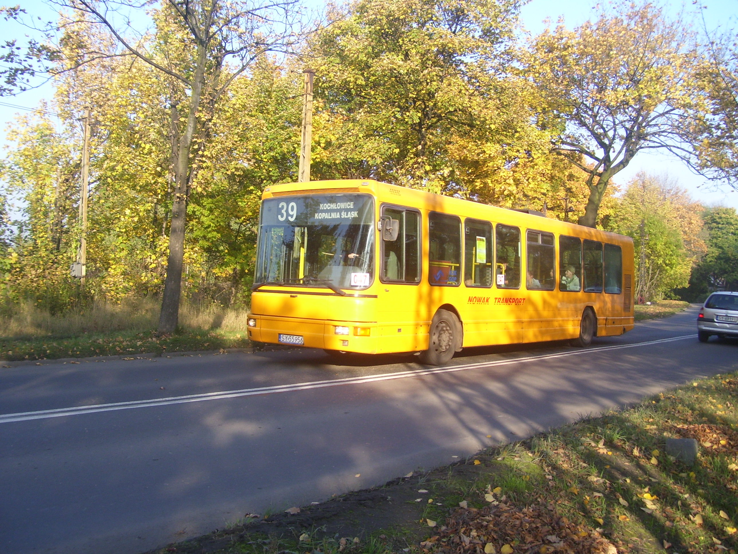 DAB 15-1200C Mk. I bus (#047). Built 1993, Ampex Bytom operator.